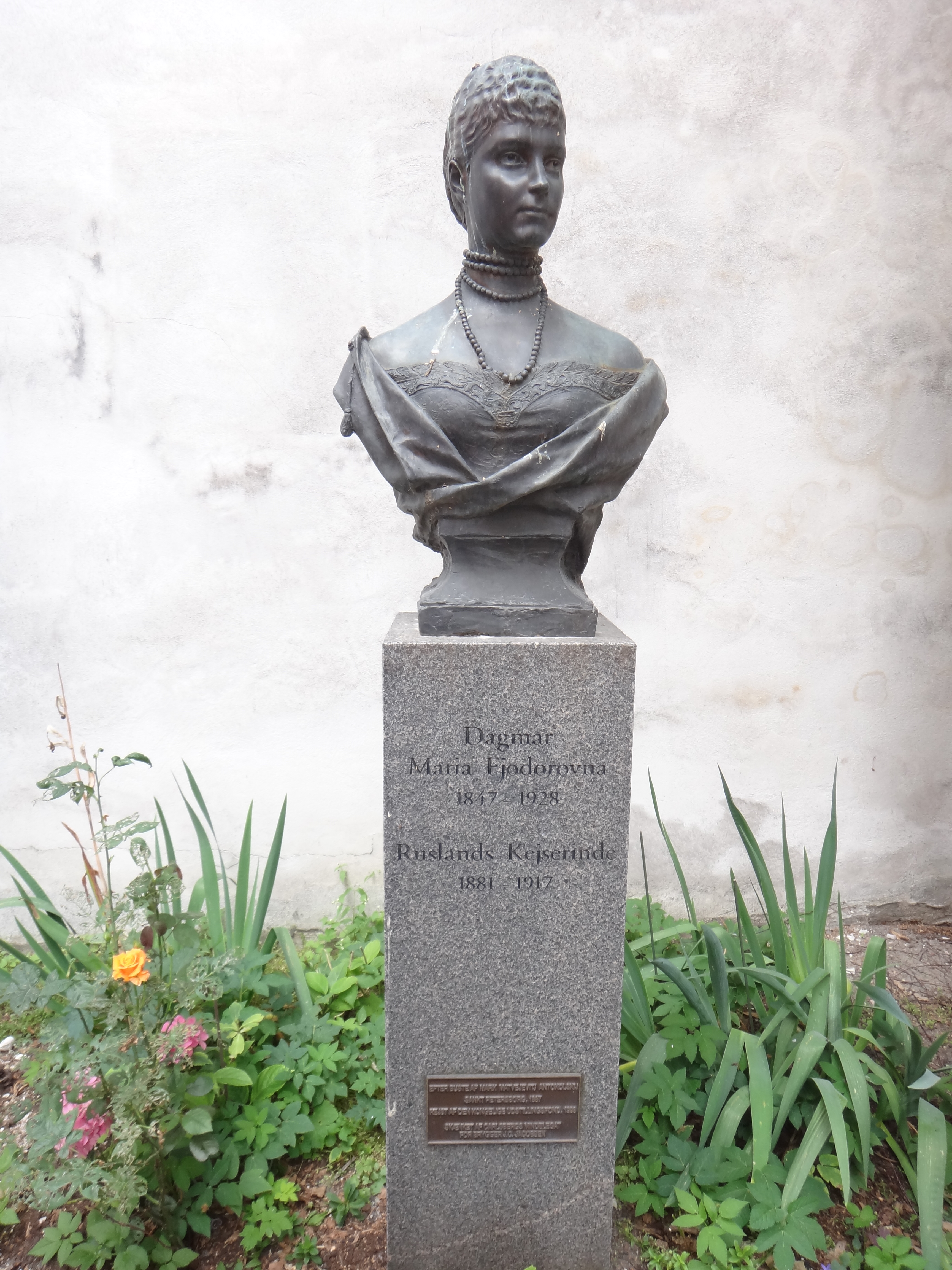 Maria Fyodorovna. The monument near Orthodox church in Copenhagen